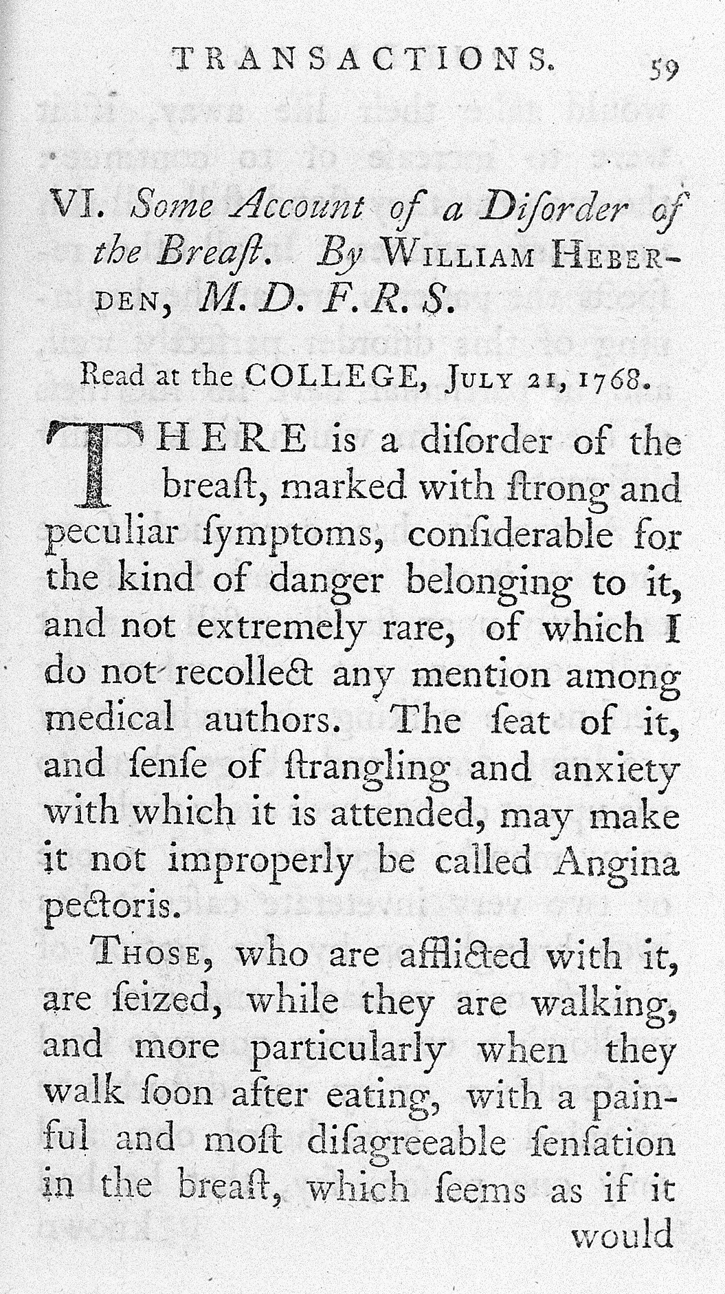 Page of text: some account of the disorder of the breast. Rare Books Keywords: William Heberden